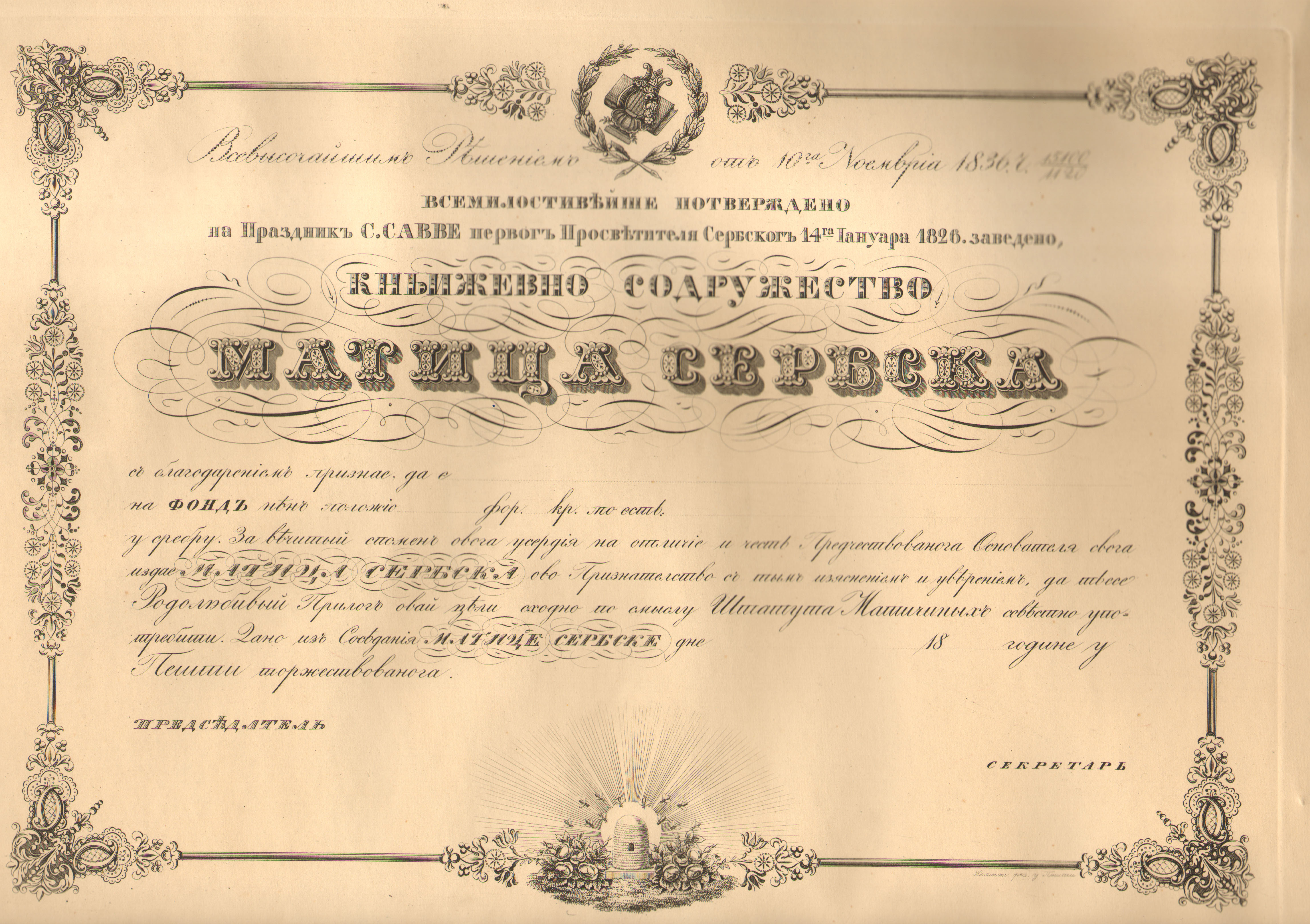 Matica srpska letter of gratitude that was granted to its benefactors (1836) Srpski (latinica): Zahvalnica Matice srpske dodeljivana dobrotvorima (1836)